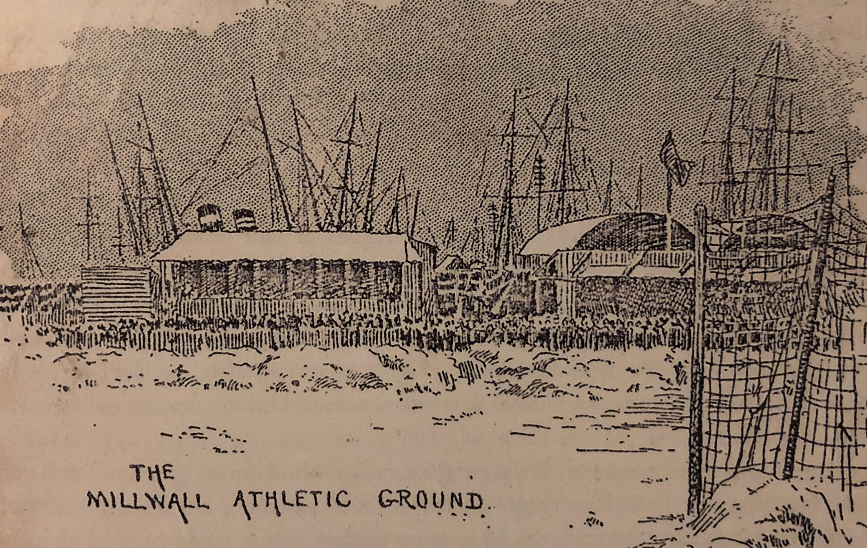 An illustration of Millwall Football Club's The Athletic Grounds on East Ferry Road. Covered in snow in January 1894.